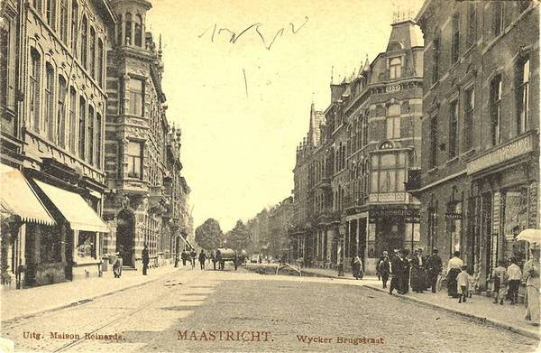 Maastricht, the Netherlands. View towards the East of Wycker Brugstraat (postcard, ca 1900)